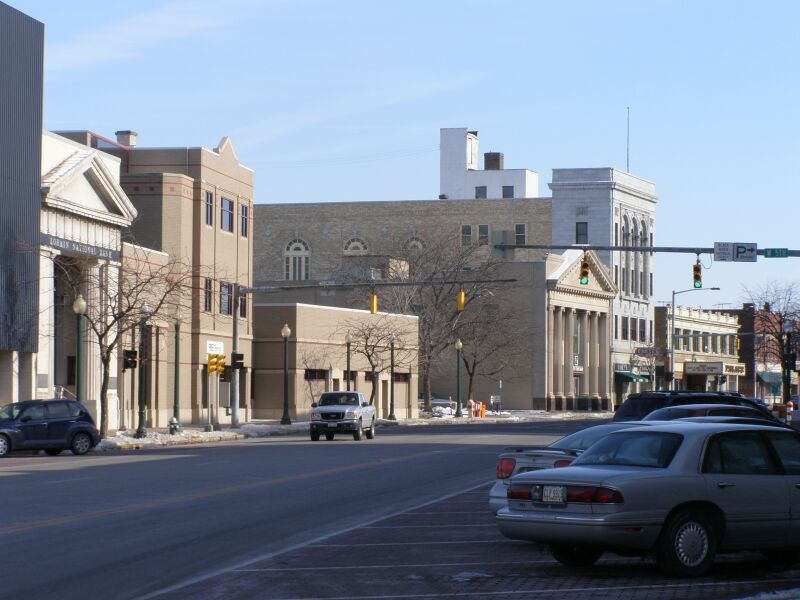 Eagles Building, (left side of street, tall white facade), Lorain, Ohio